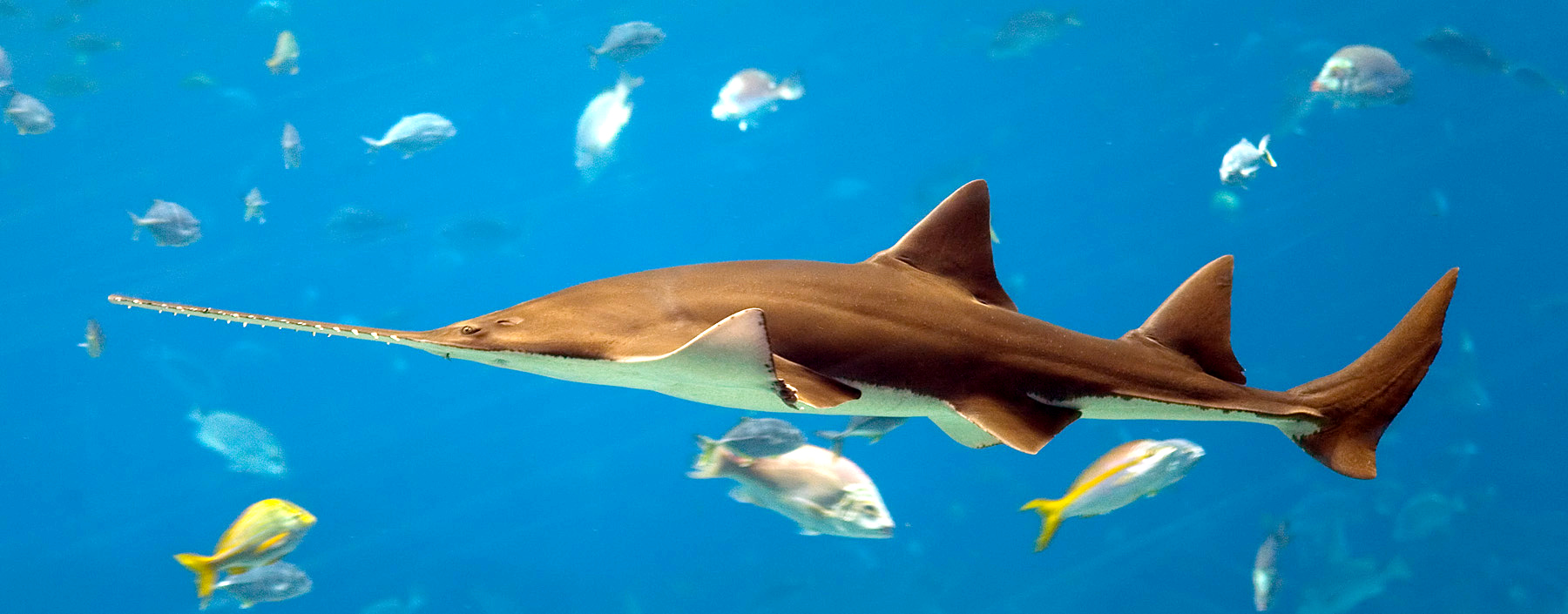 A common sawfish (Pristis pristis; P. microdon & P. perotteti are synonyms) swimming in the Ocean Voyager tank of the Georgia Aquarium on 23rd January, 2006. This photo was taken by myself with a Canon 5D and 24-105mm f/4L IS.